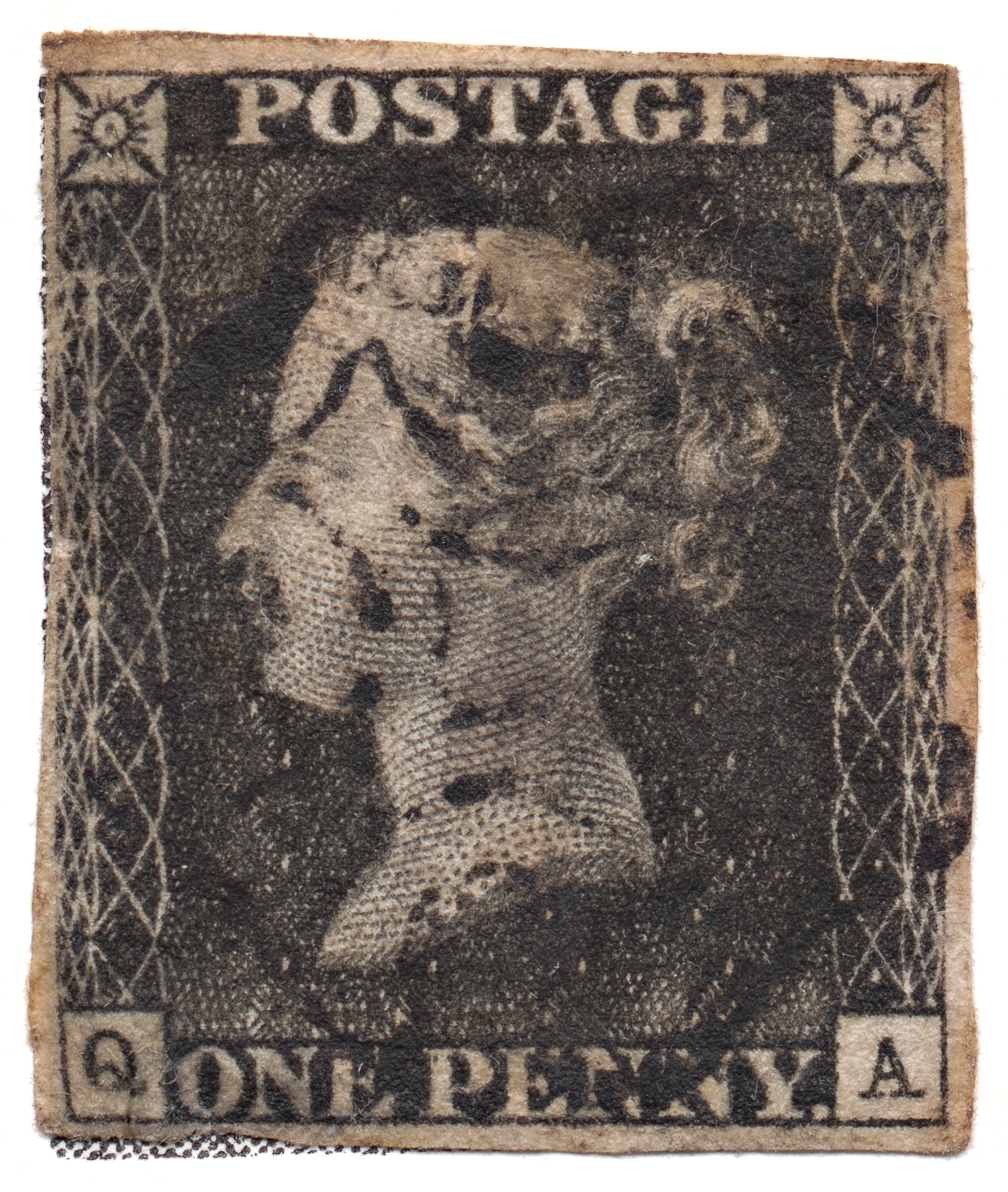 High resolution scan of the Penny Black Stamp from Great Britain / United Kingdom. Issued circa 1840, it is reportedly the world's first adhesive postage stamp used in a public postal system.